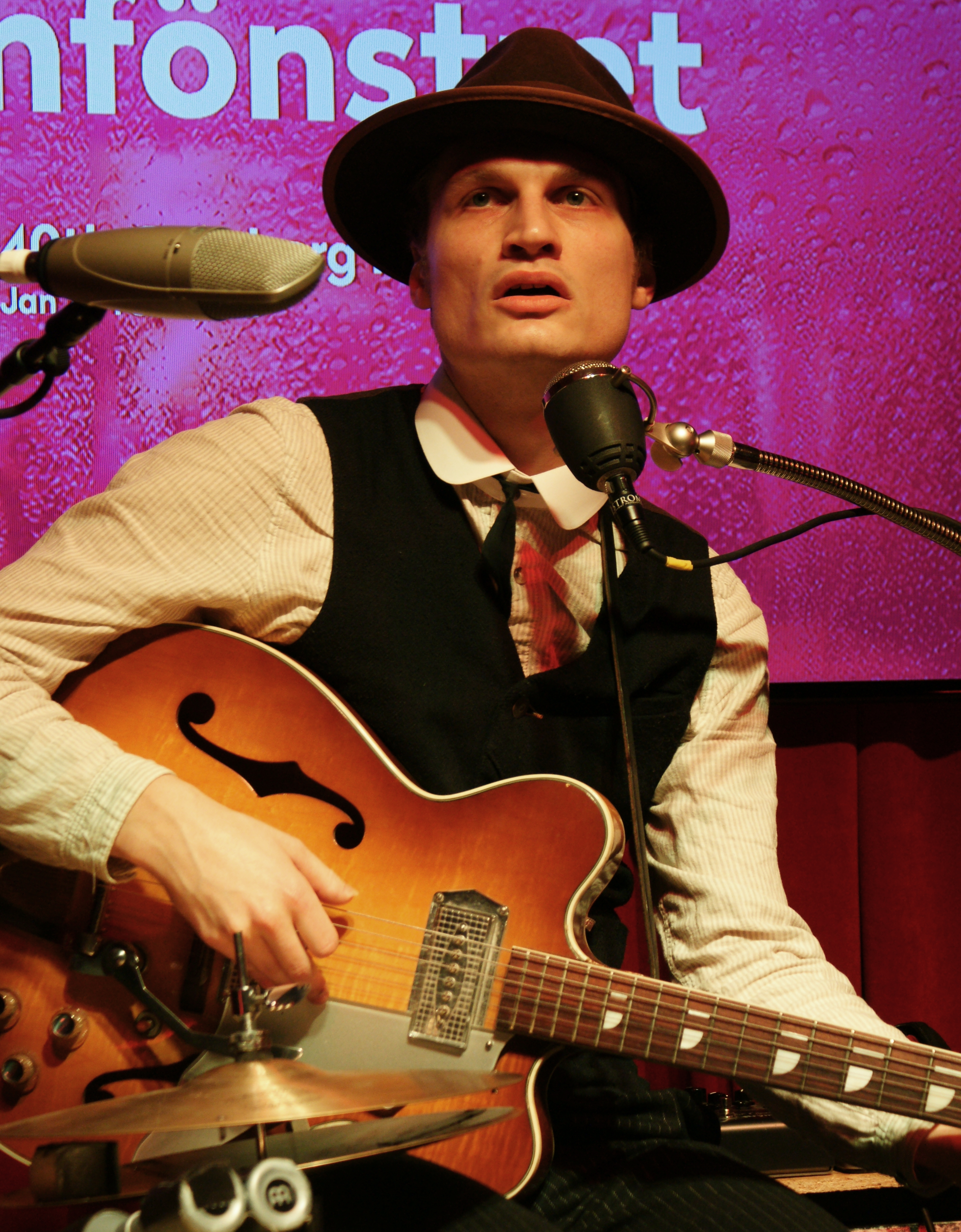 Swedish one-man band Bror Gunnar Jansson, performing at Göteborg Film Festival 2017.